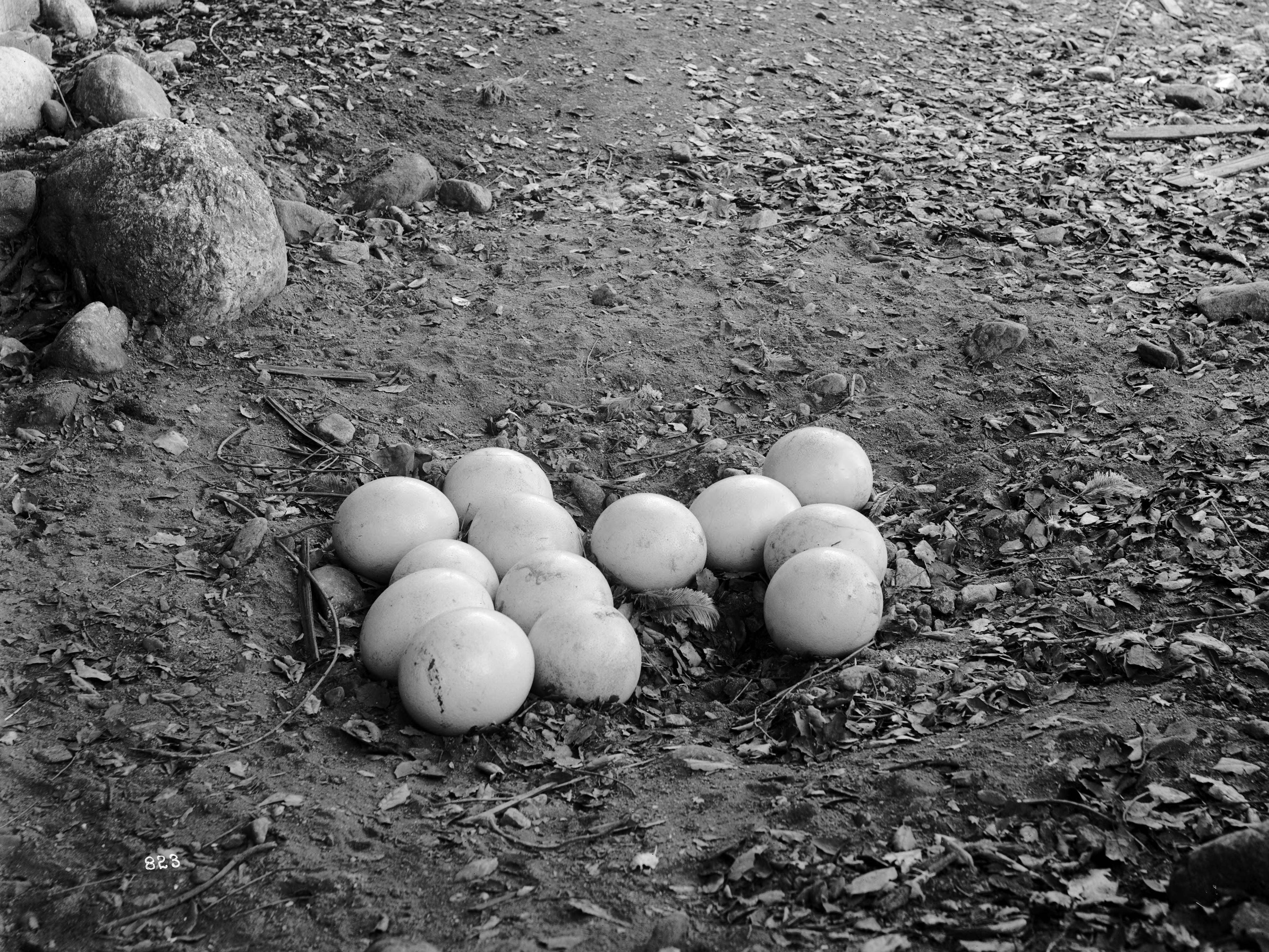 Ostrich eggs in a nest at an ostrich farm, South Pasadena, ca.1900 Photograph of 13 ostrich eggs in a nest at an ostrich farm, South Pasadena, ca.1900. A few rocks are visible at left. Call number: CHS-823 Filename: CHS-823 Coverage date: circa 1900 Part of collection: California Historical Society Collection, 1860-1960 Format: glass plate negatives Type: images Geographic subject (city or populated place): South Pasadena; Los Angeles Repository name: USC Libraries Special Collections Accession number: 823 Microfiche number: 1-85-5 Archival file: chs_Volume69/CHS-823.tiff Part of subcollection: Title Insurance and Trust, and C.C. Pierce Photography Collection, 1860-1960 Repository address: Doheny Memorial Library, Los Angeles, CA 90089-0189 Geographic subject (country): USA Format (aacr2): 2 photographs : glass photonegative, photoprint, b&w ; 17 x 22 cm., 21 x 26 cm. Rights: Digitally reproduced by the USC Digital Library; From the California Historical Society Collection at the University of Southern California Subject (adlf): agricultural sites Project: USC Repository Contributing entity: California Historical Society Date created: circa 1900 Publisher (of the digital version): University of Southern California. Libraries Format (aat): photographic prints; photographs Geographic subject (state): California Subject (file heading): Agriculture -- Ranching -- Livestock -- Ostriches Legacy record ID: chs-m9590; USC-1-1-1-9729 Access conditions: Send requests to address or e-mail given. Phone (213) 821-2366; fax (213) 740-2343. Geographic subject (county): Los Angeles Subject (lcsh): Ostriches; Hatcheries -- Ostriches